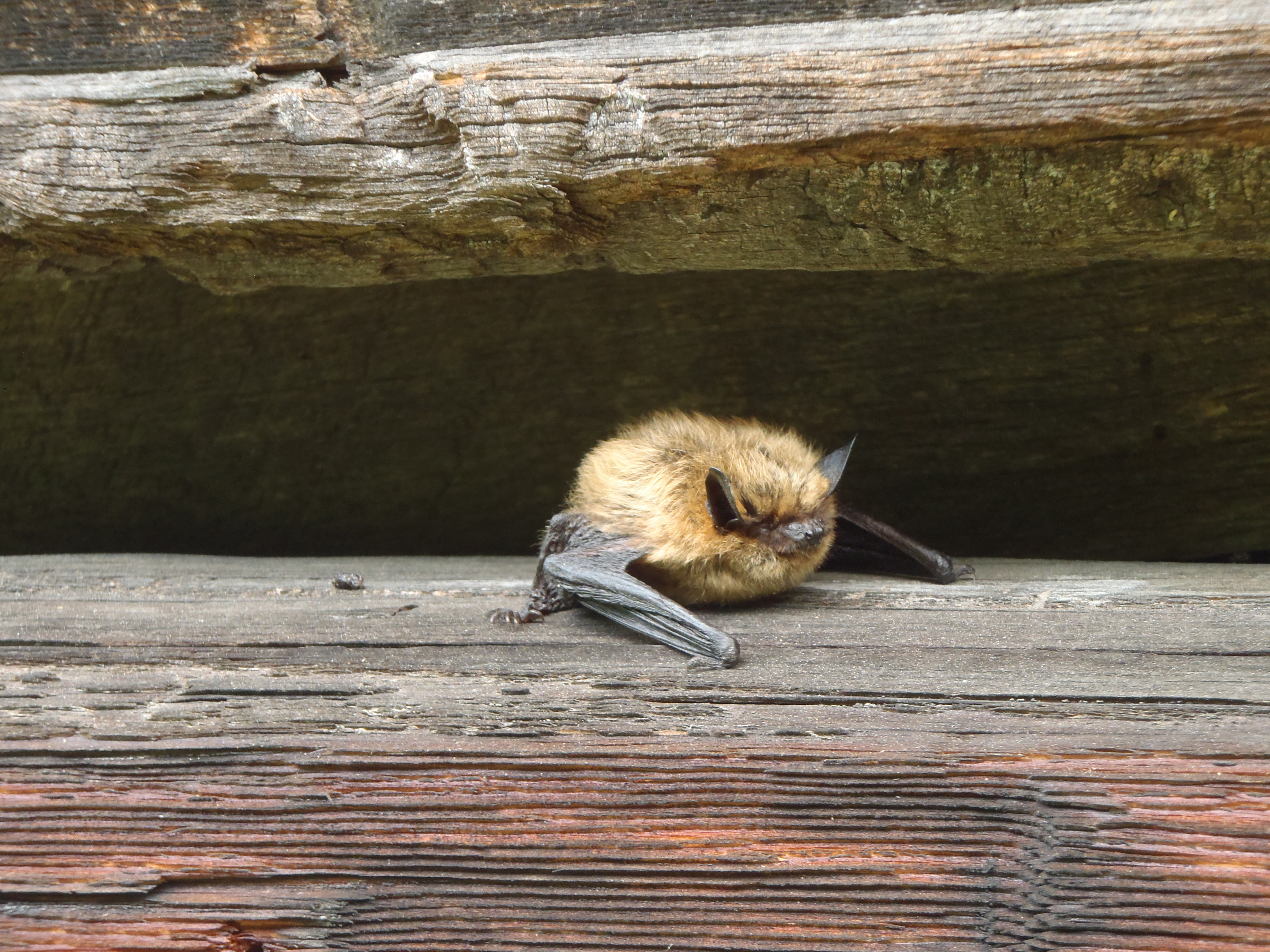 This Eastern Small Footed ( Myotus Leibii) is very rare due to the disease "White Nose Syndrome". This bat was spotted in between the timbers of a replica smokehouse in the historic homestead of the picnic area. -AKH